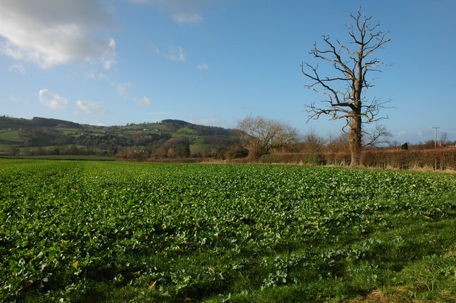 Farmland at Brobury View west towards Bredwardine Hill.